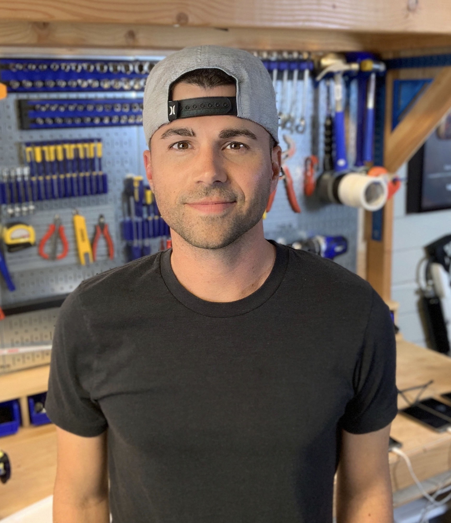 Mark Rober 2020